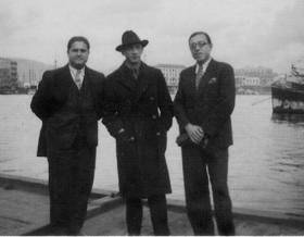 Greek composer Kostas Kidoniatis (right) and the violinist V. Stavrianos (left) escorted Dimitris Mitropoulos departed to Italy, Piraeus 1935